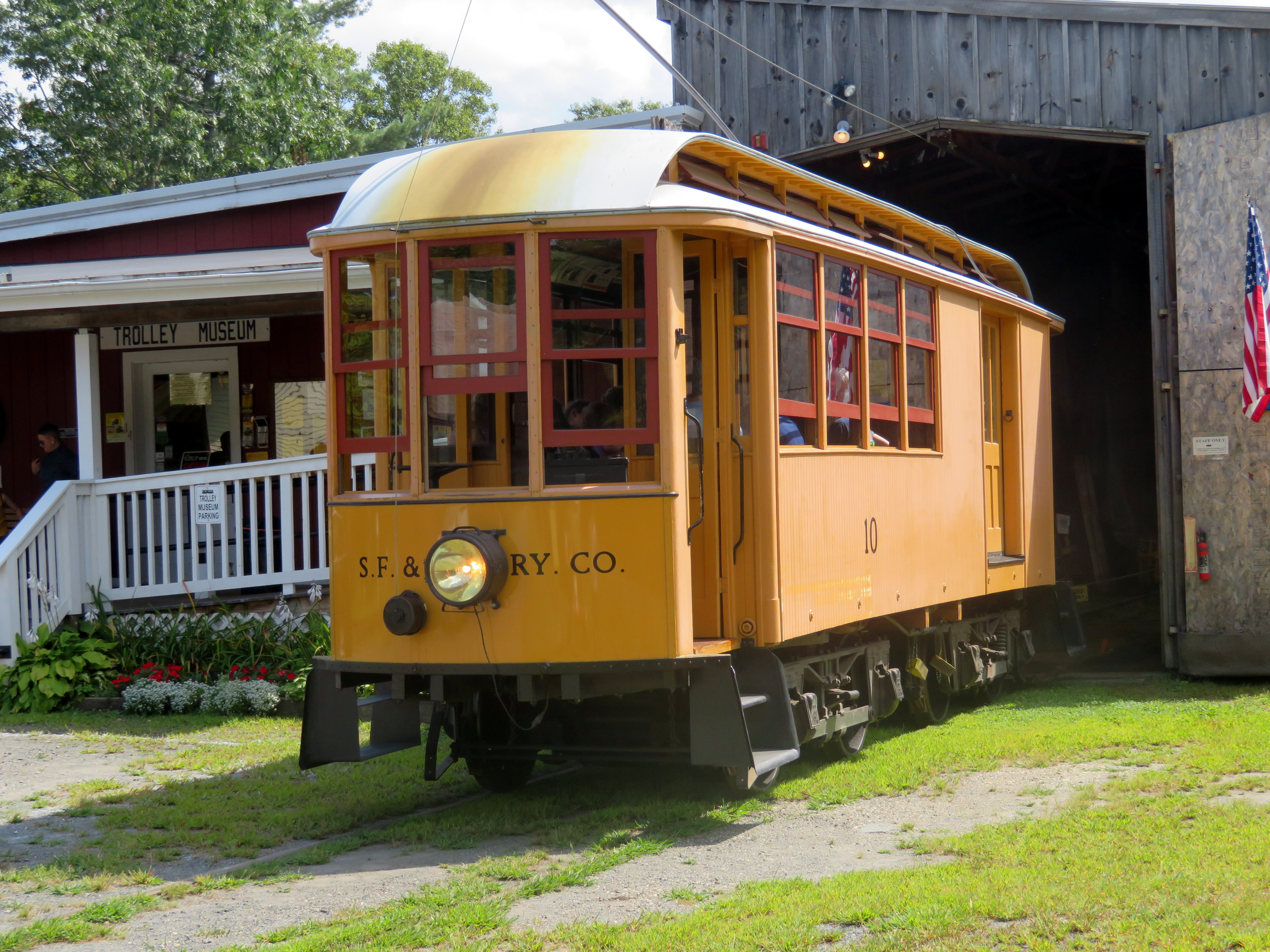 Streetcar #10 at Shelburne Falls Trolley Museum in September 2018